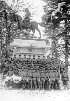 Japanese soldiers in front of the statue of Date Masamune that was placed in Aoba Castle, in May 1940